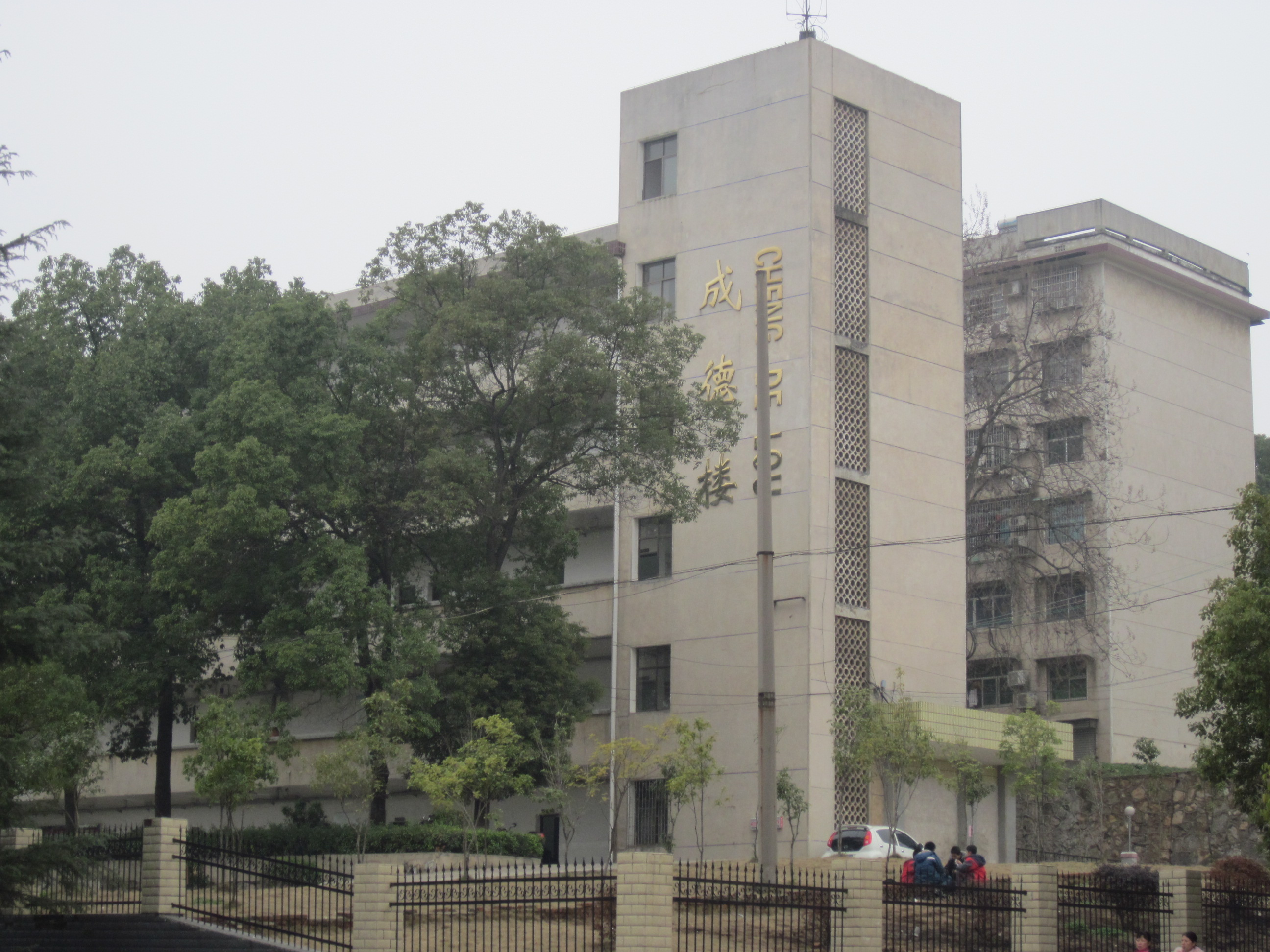 Hunan University of Humanities, Science and Technology （simplified